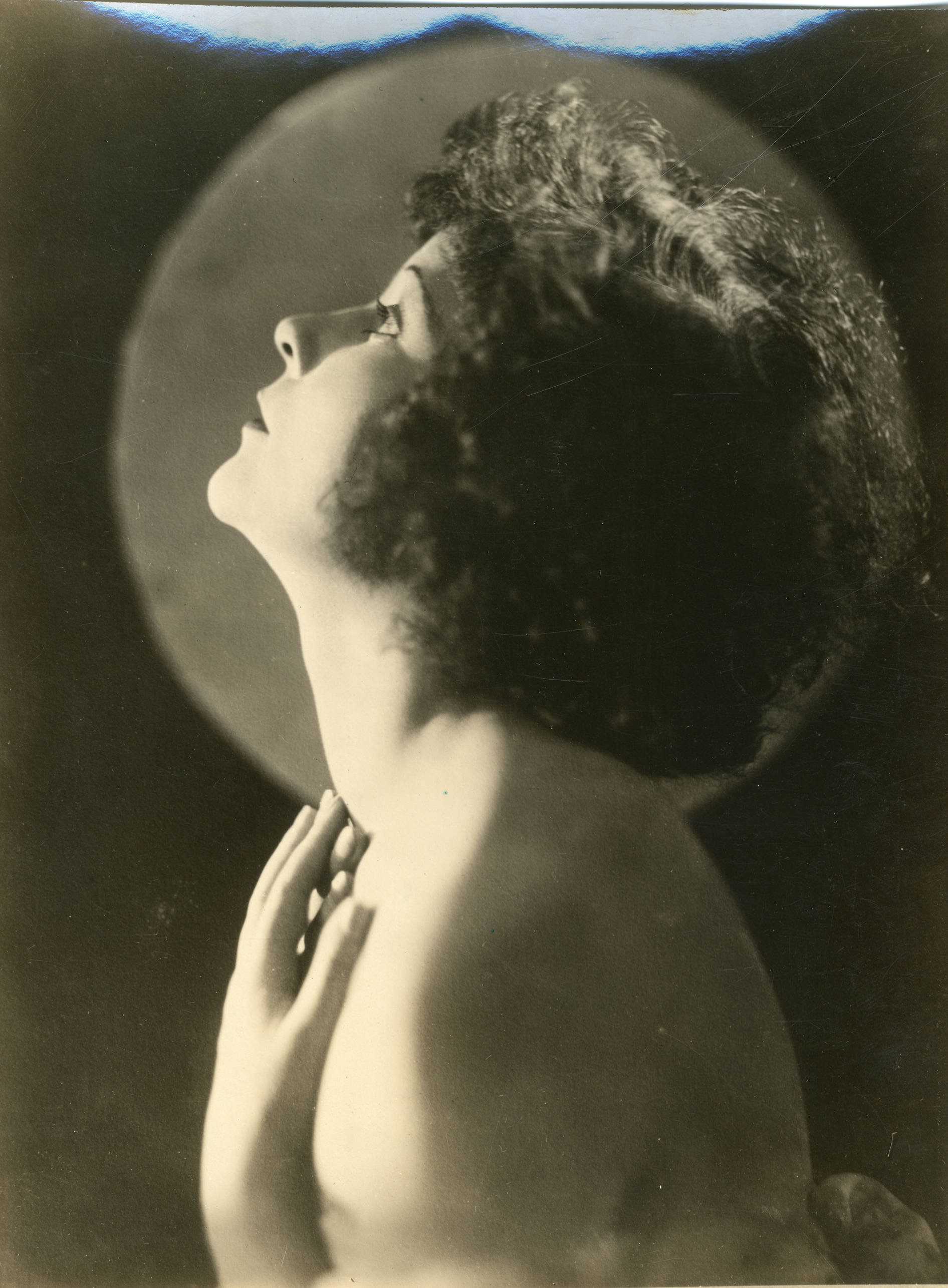 Mary Thurman, silent film comedies Subjects: actresses